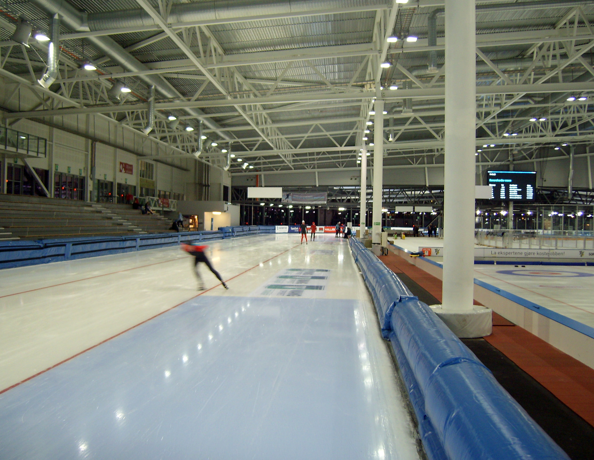 Stavanger, Sørmarka Arena, 9th Masters’ Int. Single Distances Races 2013